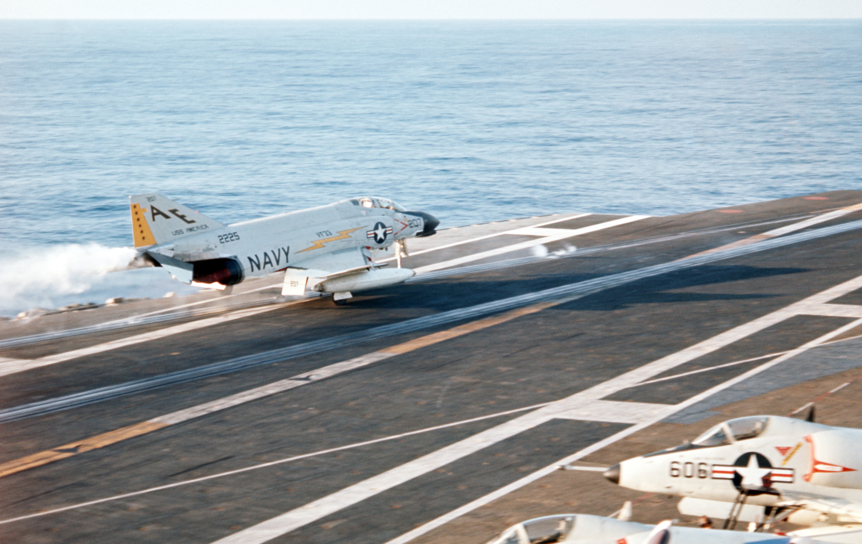 A fighter squadron VF-33 Tarsiers McDonnell F-4B Phantom II aircraft (BuNo. 152225) is launched during flight operations aboard the attack aircraft carrier USS America (CVA-66). VF-33 made two deployments to the Mediterranean Sea flying the F-4B between 1965 and 1967. Note the early-style drop tanks on the Phantom. A Douglas A-4C Skyhawk of attack squadron VA-64 Black Lancers is visible in the foreground.